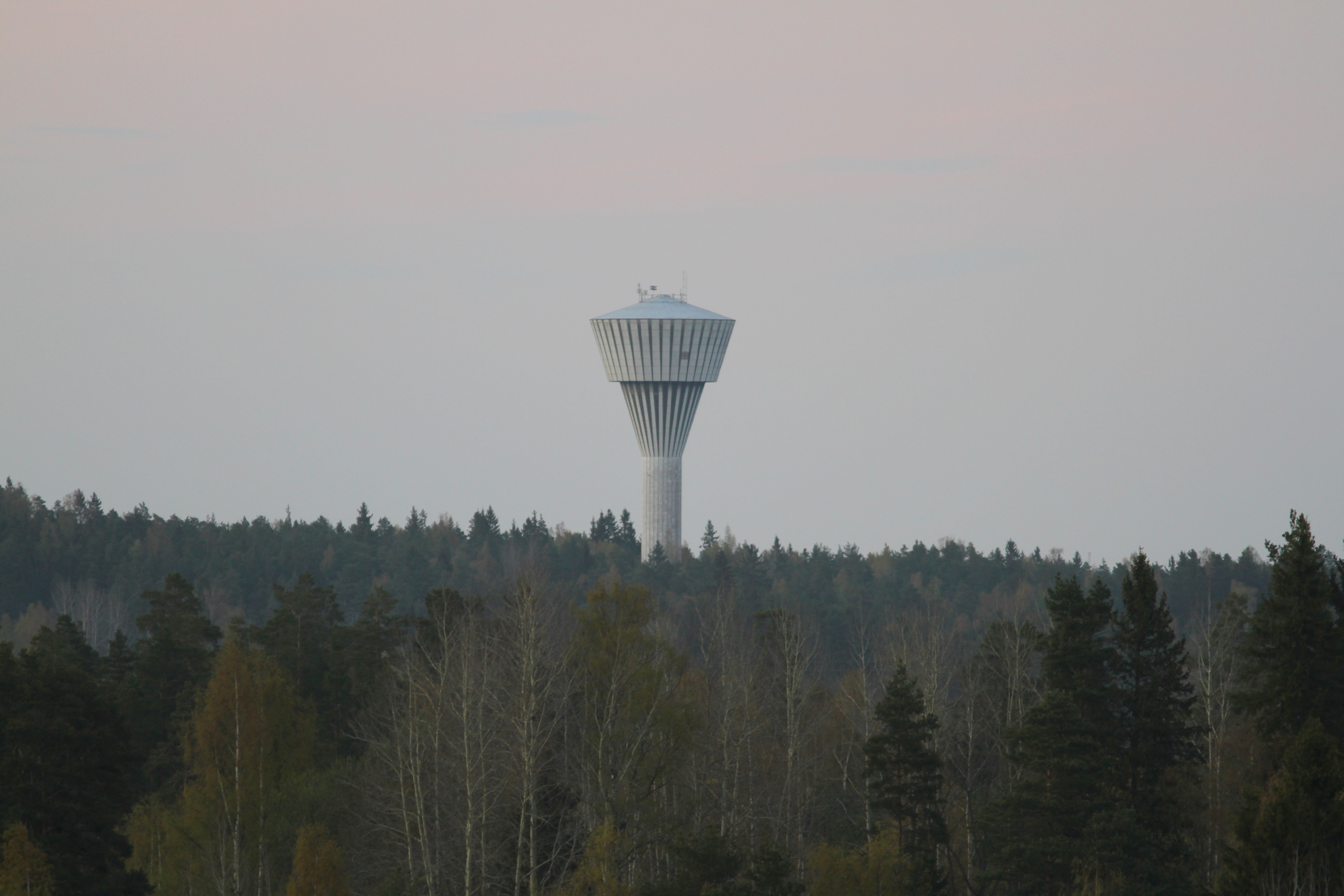 Raisio water tower is a water tower in Raisio, Finland.